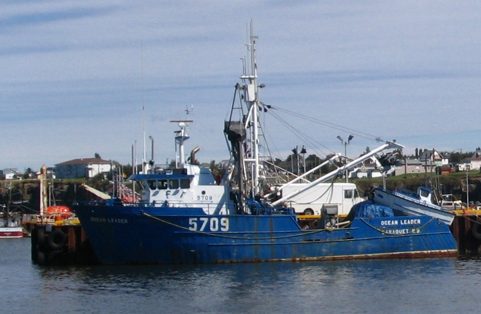 The Ocean Leader, a major canadian fishing boat, based in Newfoundland. IMO number: 8200101